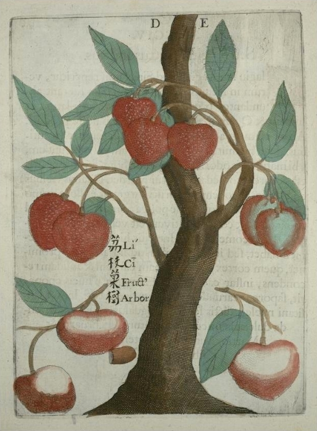 One of the earliest natural history books about China. Jesuit Missionary author. (obviously includes some non-Chinese {and non-floral} species)